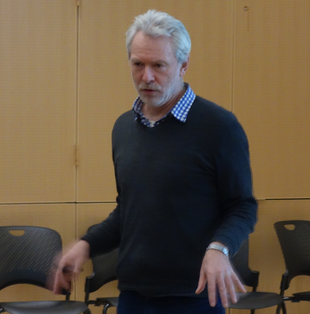 Andrew Berry speaking at the Massachusetts Institute of Technology, on the double discovery of evolution theory by Darwin and Wallace, for the Secular Society of MIT's Darwin Day event